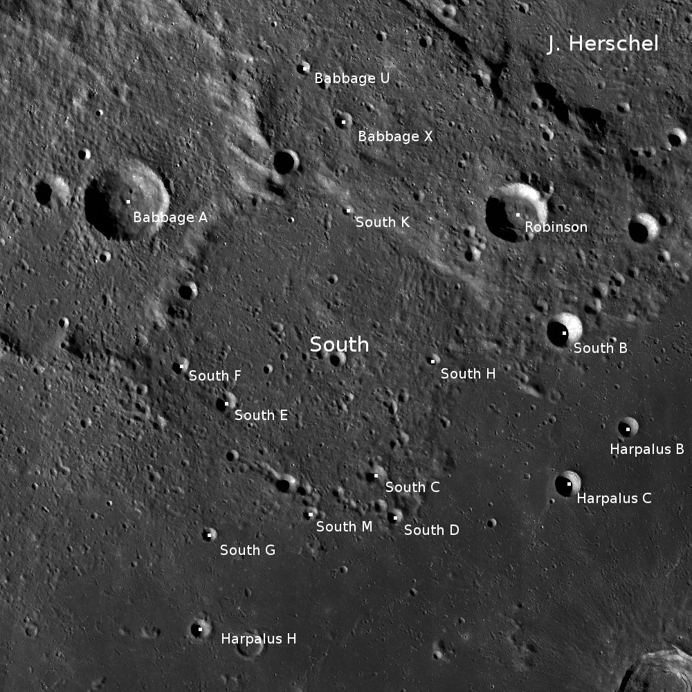 Moon crater South with satellite features (north at top; detail of LROC - WMS image map)